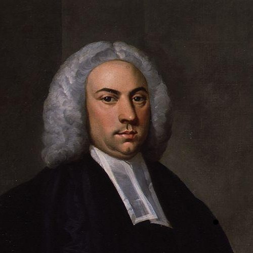 Dr Francis Ayscough (1700-1763) was a tutor to George III and Clerk of the Closet to his father Frederick, Prince of Wales and he was later Dean of Bristol Cathedral